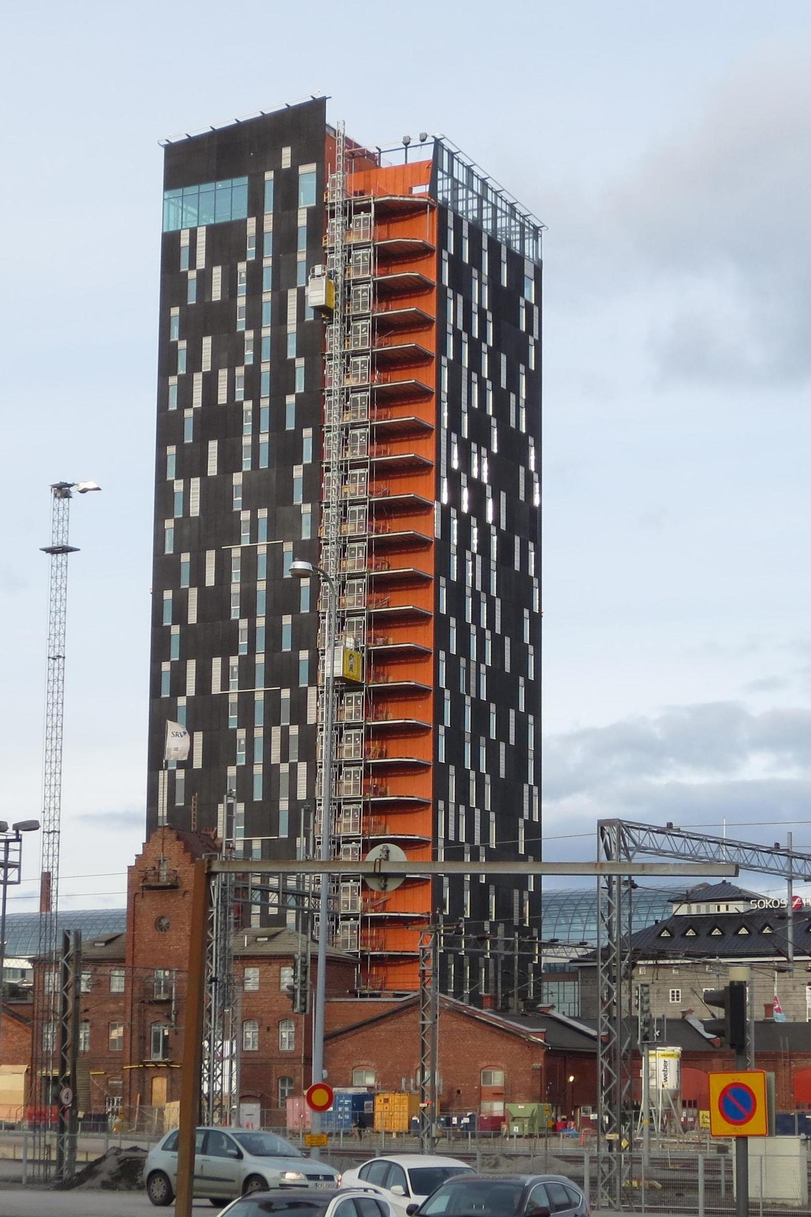 Solo Sokos Hotel Torni Tampere